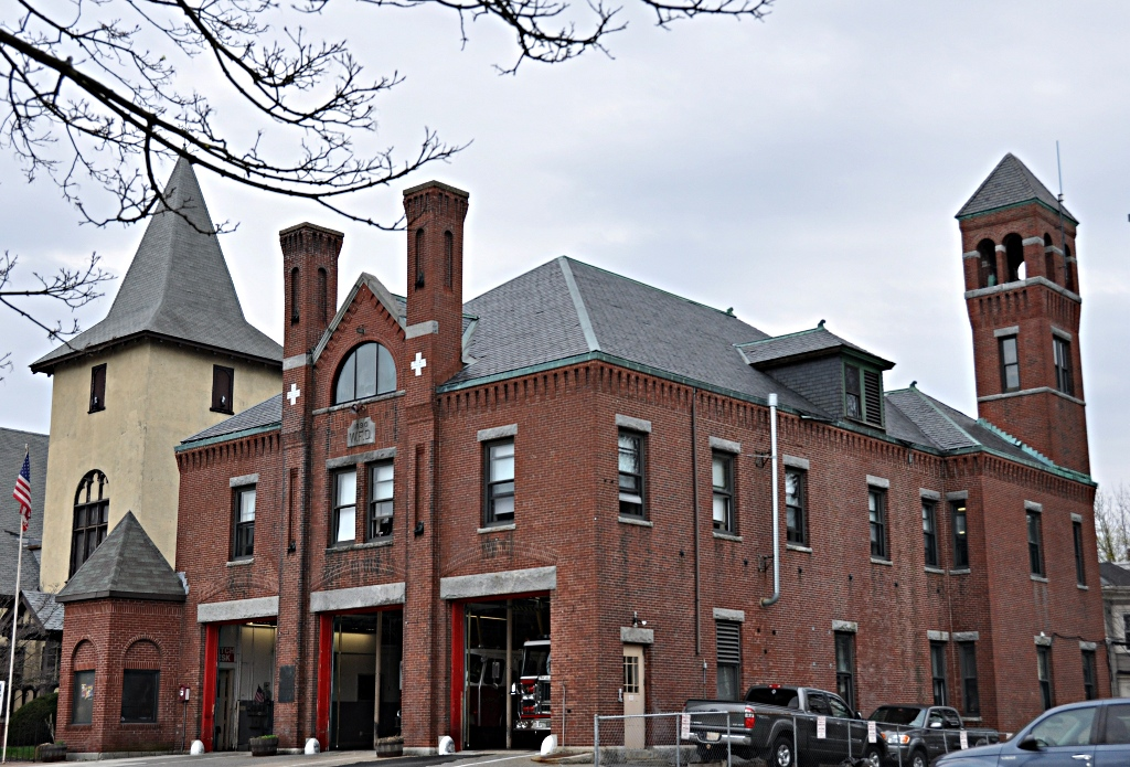 A photograph of the historic Moody Street Fire Station in Waltham, Massachusetts.